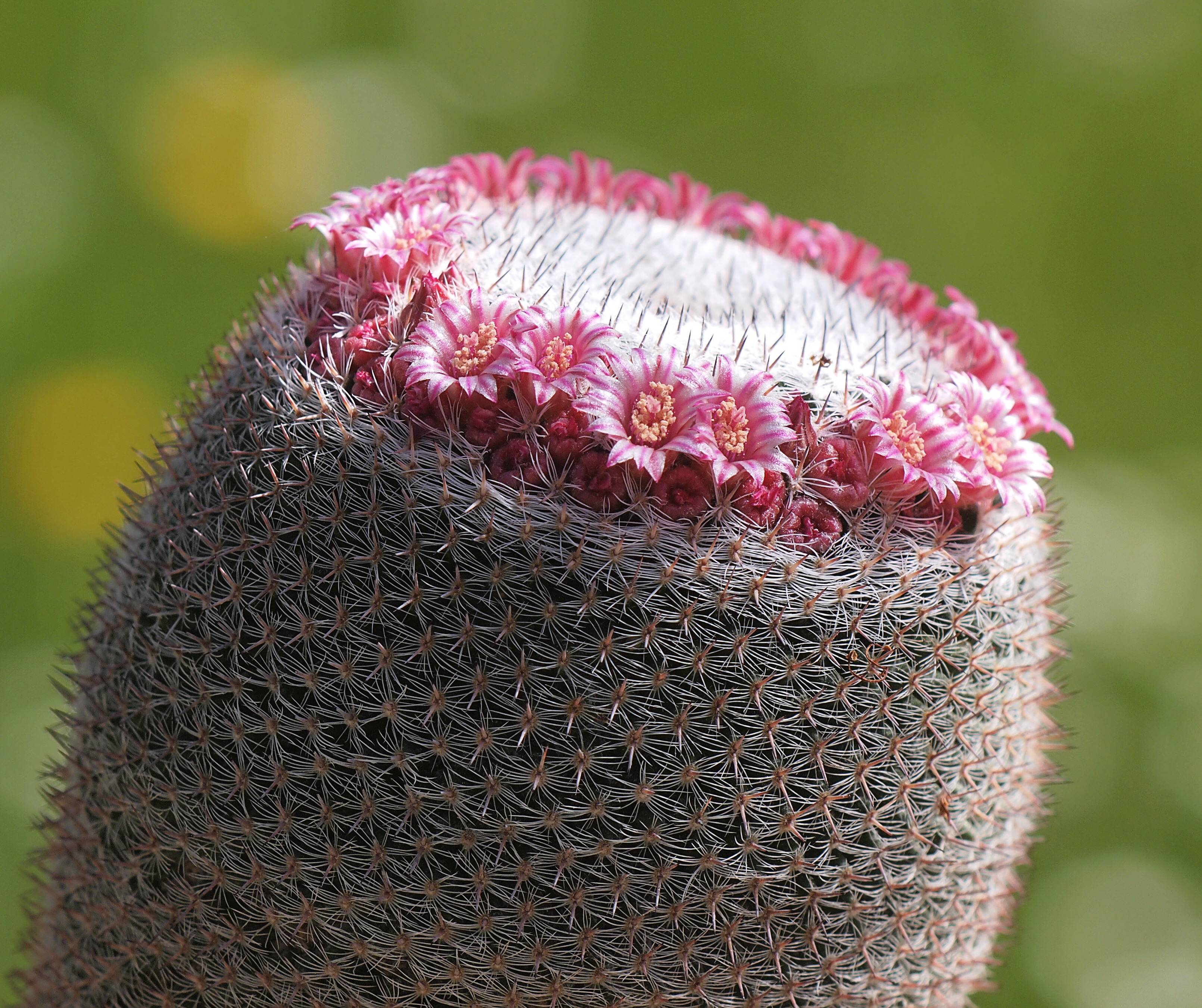 Mammillaria perbella